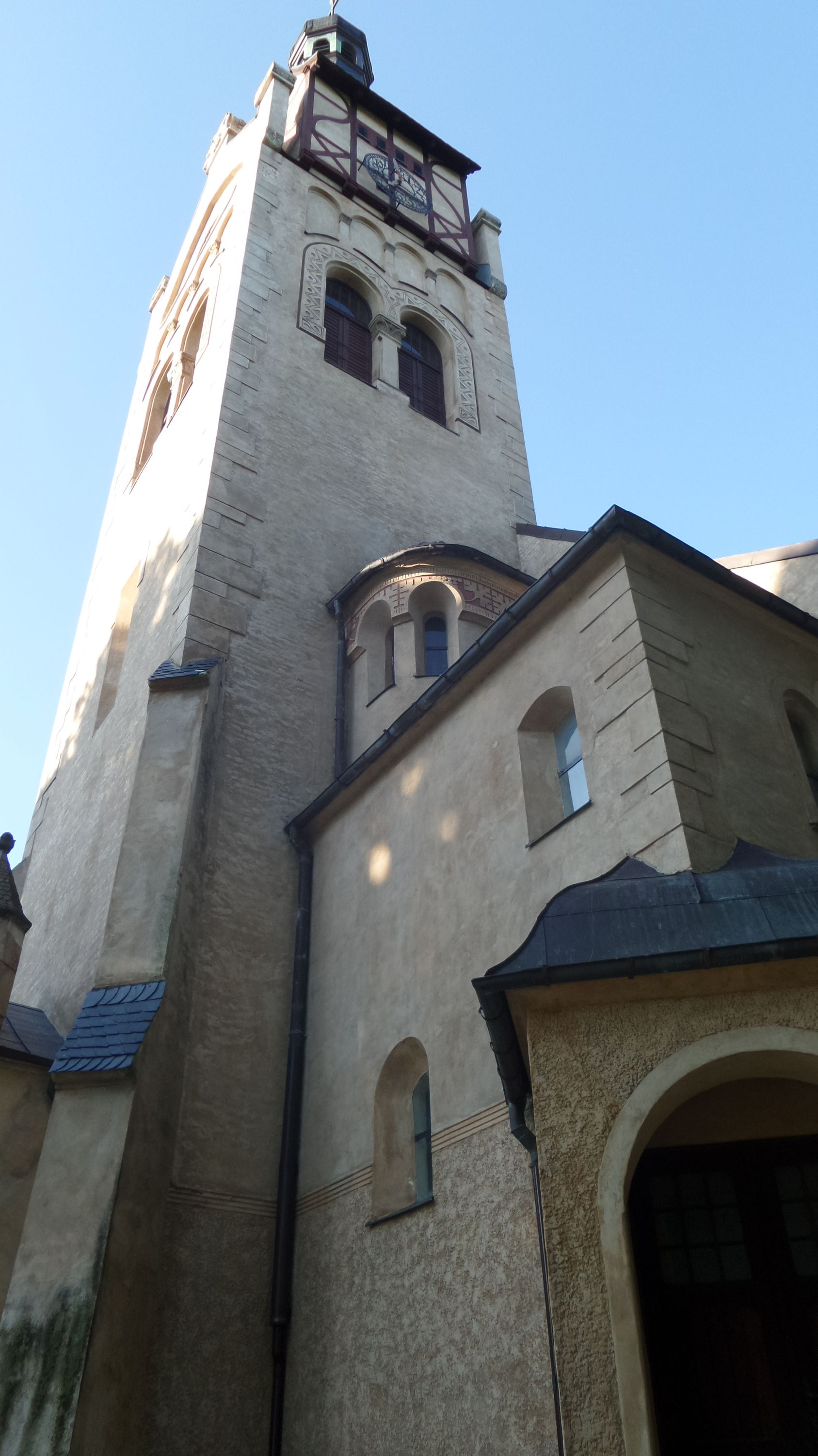 Church in Dubulti, Latvia